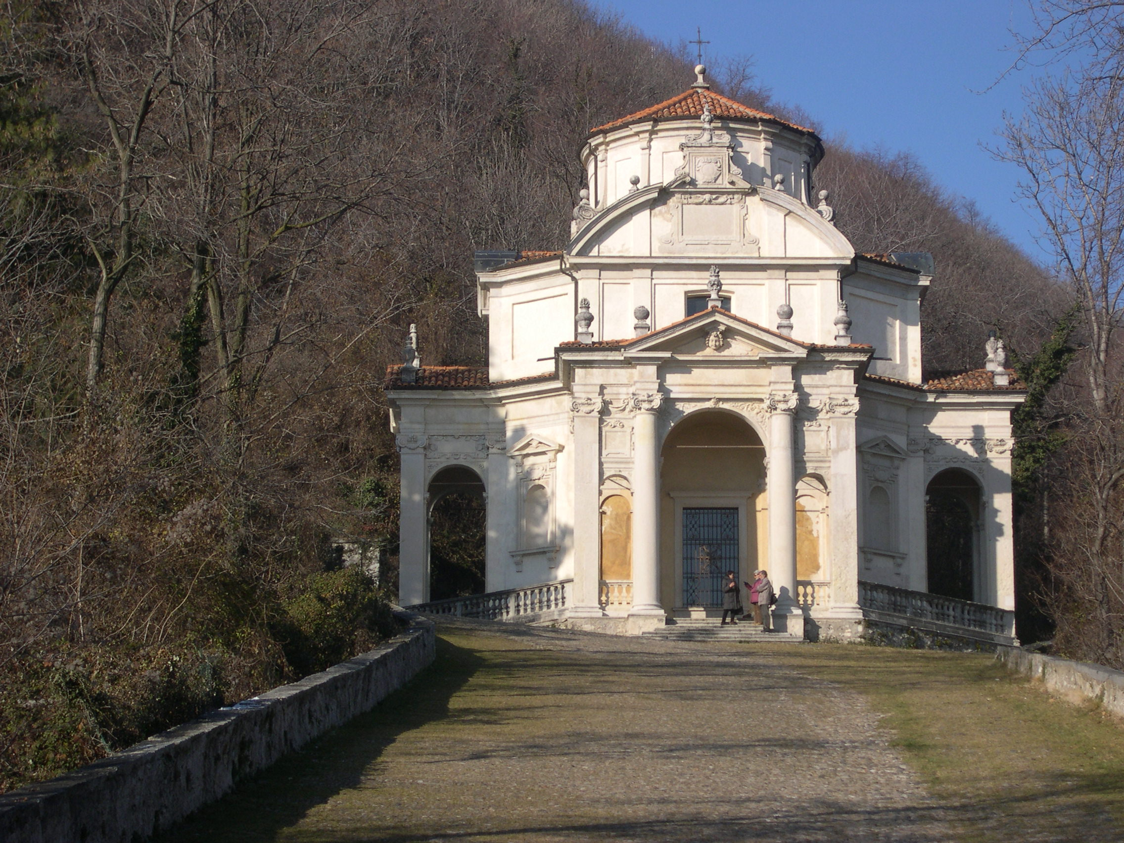 Chapel V of the Sacro Monte (Varese)